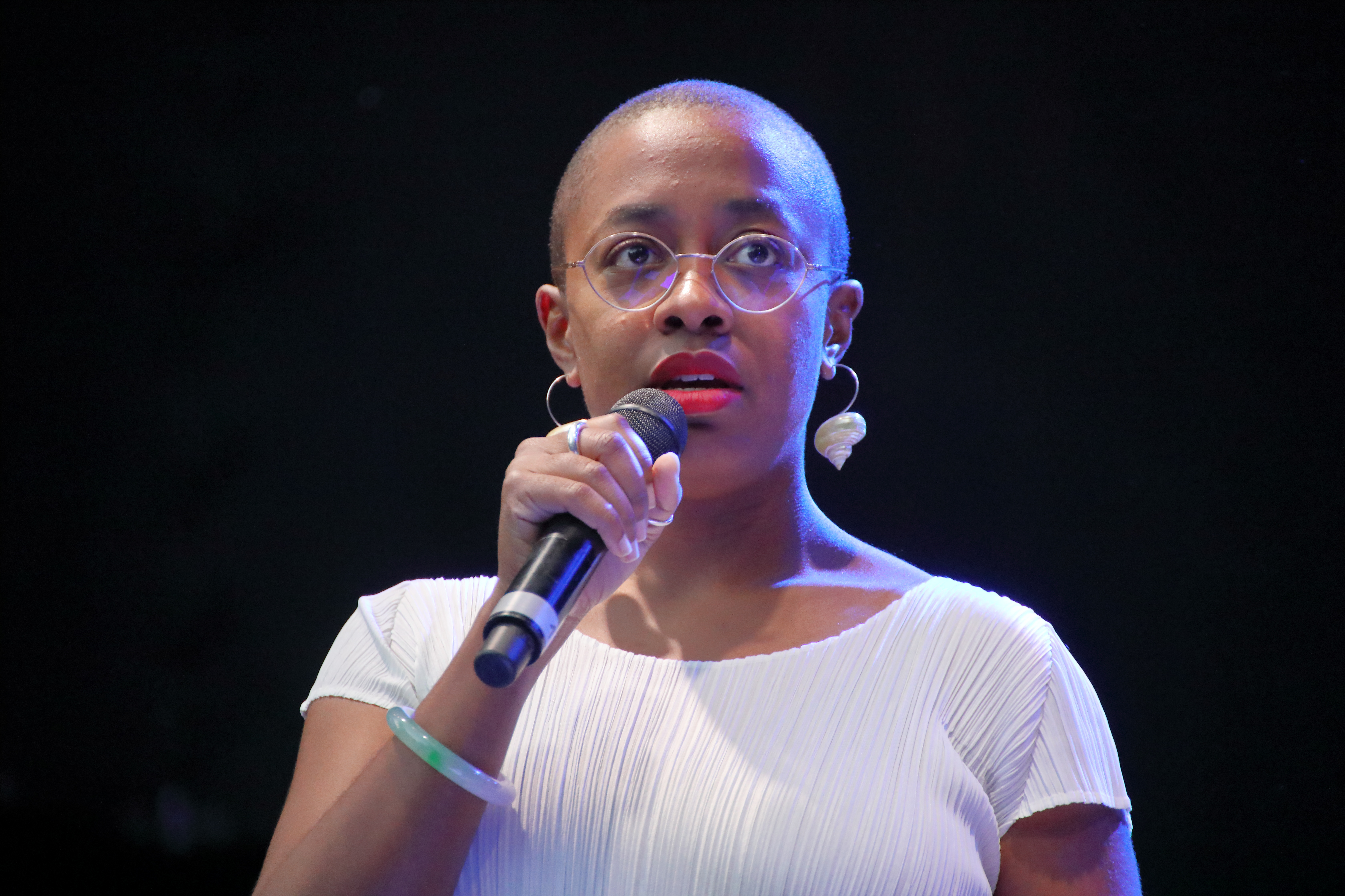 Cécile McLorin Salvant with Angelique Kidjo and Lizz Wright in the collective women´s project Sing The Truth at Rudolstadt-Festival 2019.